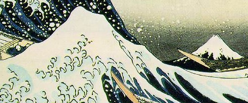 The Great Wave off Kanagawa, Hokusai Katsushika : details of painting : the wave and the Fuji